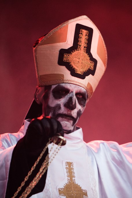 Ghost performing live at Getaway Rock Festival 2012.